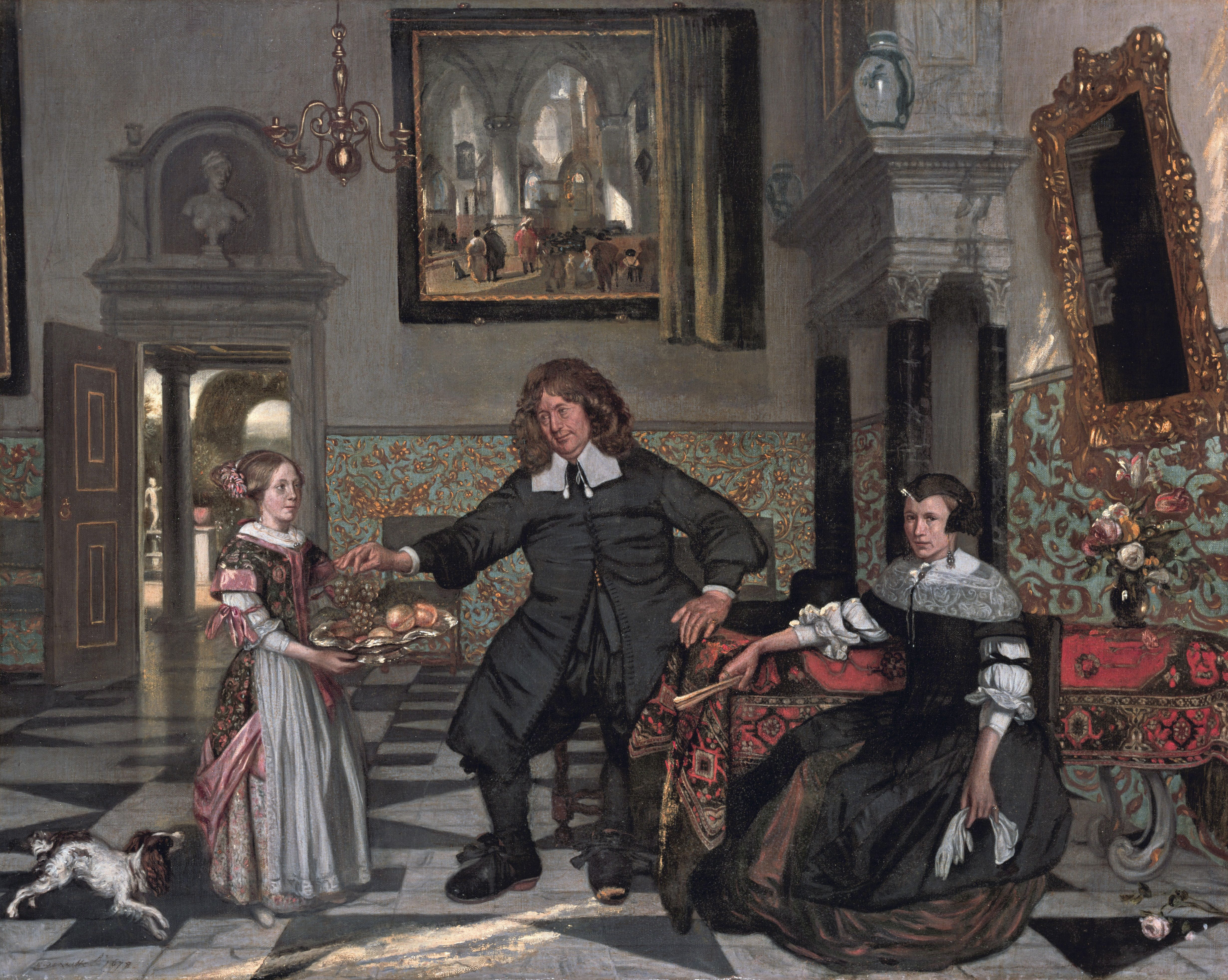 Portrait of a Family in an Interior